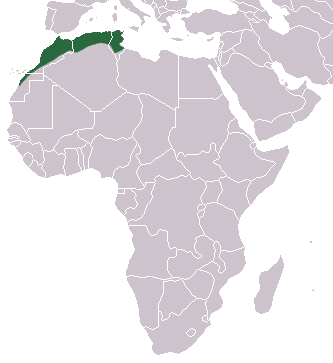 Whitaker's Shrew (Crocidura whitakeri) range